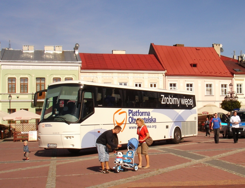 Polish parliamentary election, 2011.